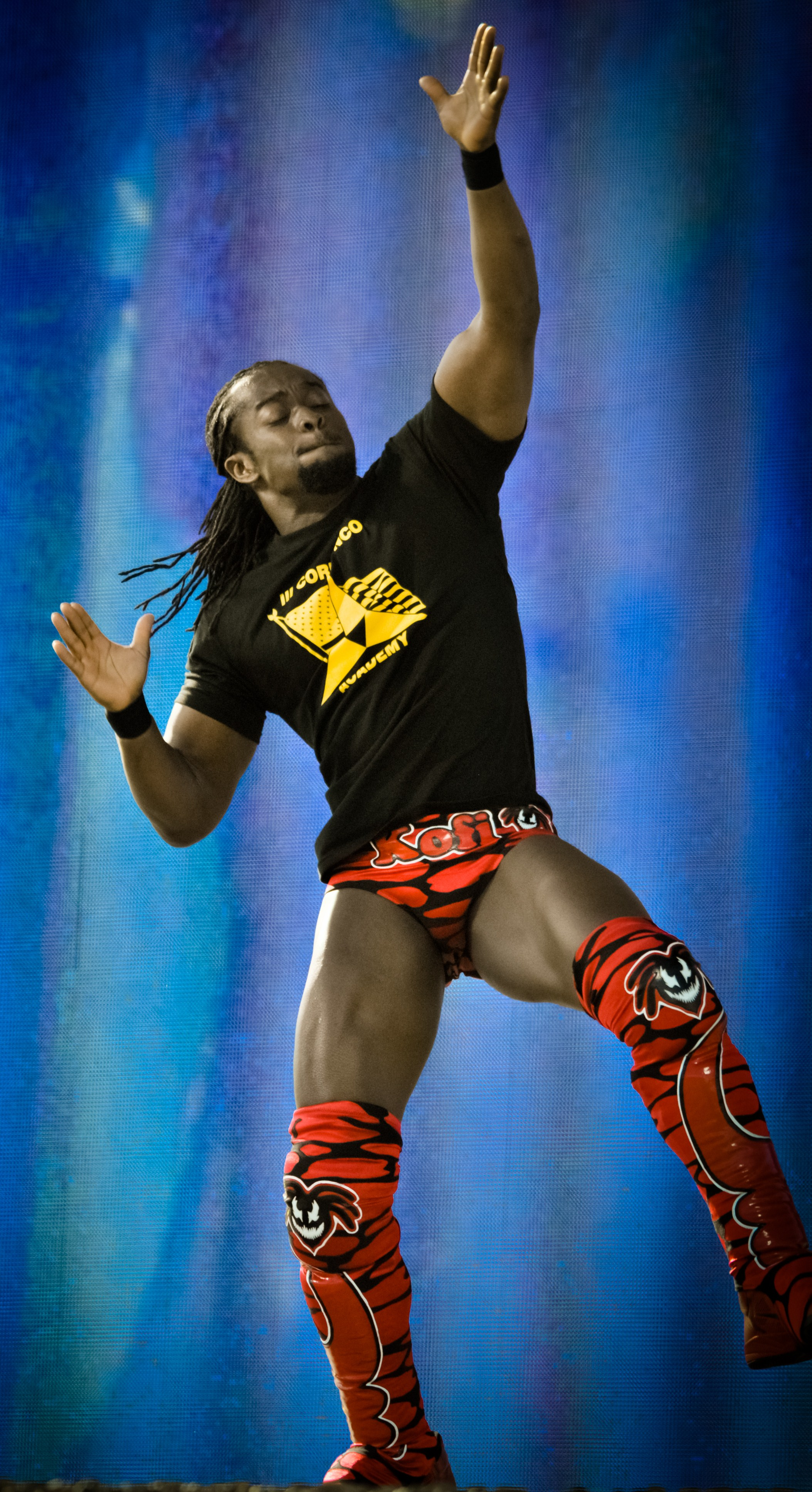 Kofi Kingston at WWE Tribute to the Troops 2010